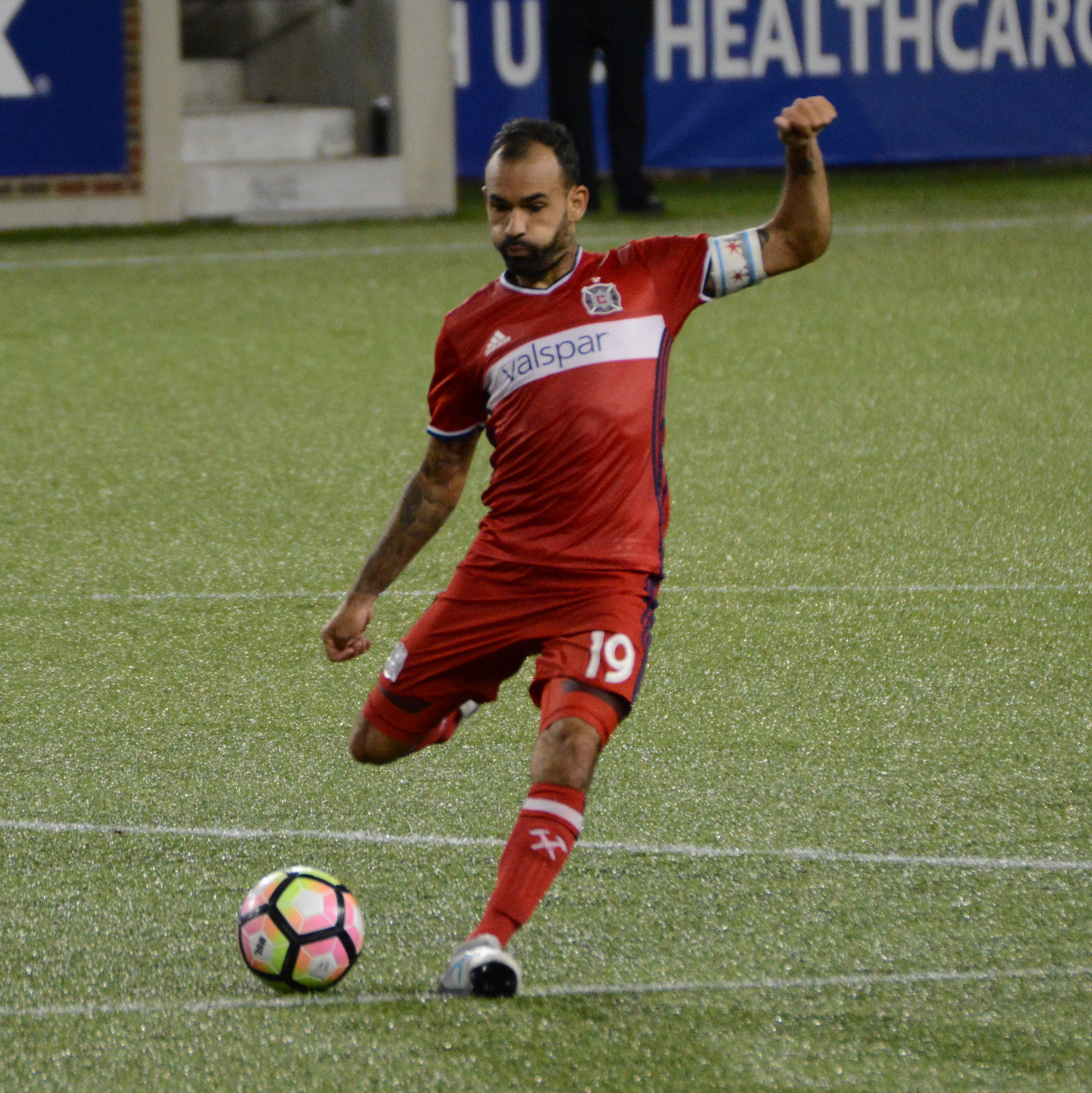 Taken at a U.S. Open Cup match between FC Cincinnati and Chicago Fire SC at Nippert Stadium in Cincinnati, Ohio on June 28, 2017.